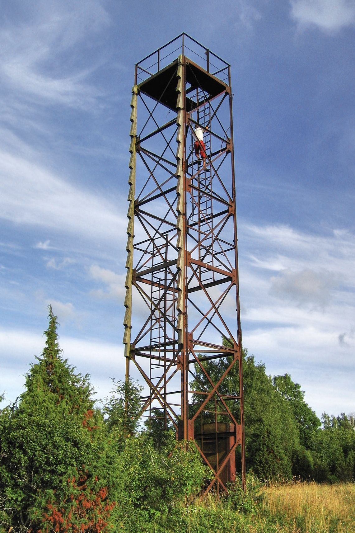 Nõmmküla rear daymark